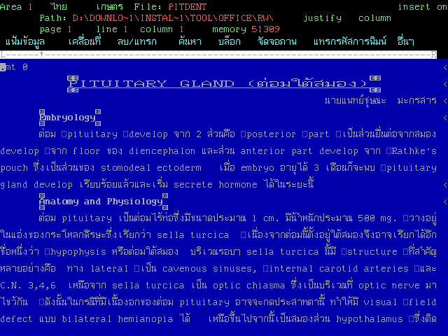 Screenshot of Rajavithi Word PC via DOSBox (This software is a public domain software.)